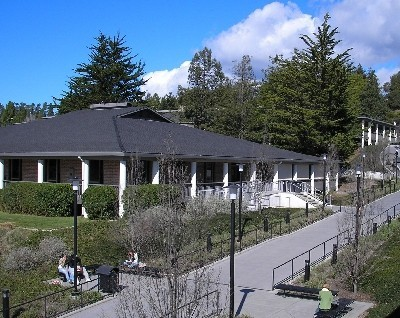 (Photo by John Pilge, I am the author.) Cabrillo College, in Aptos, CA.